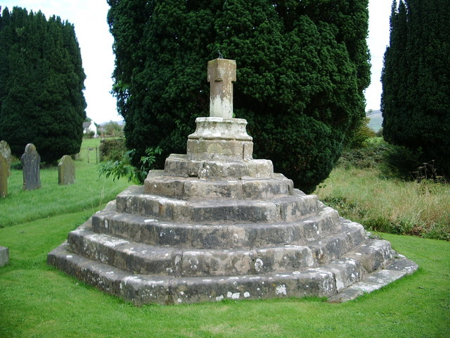 Stone cross in St Oswald's parish churchyard, Dean, Cumbria, England